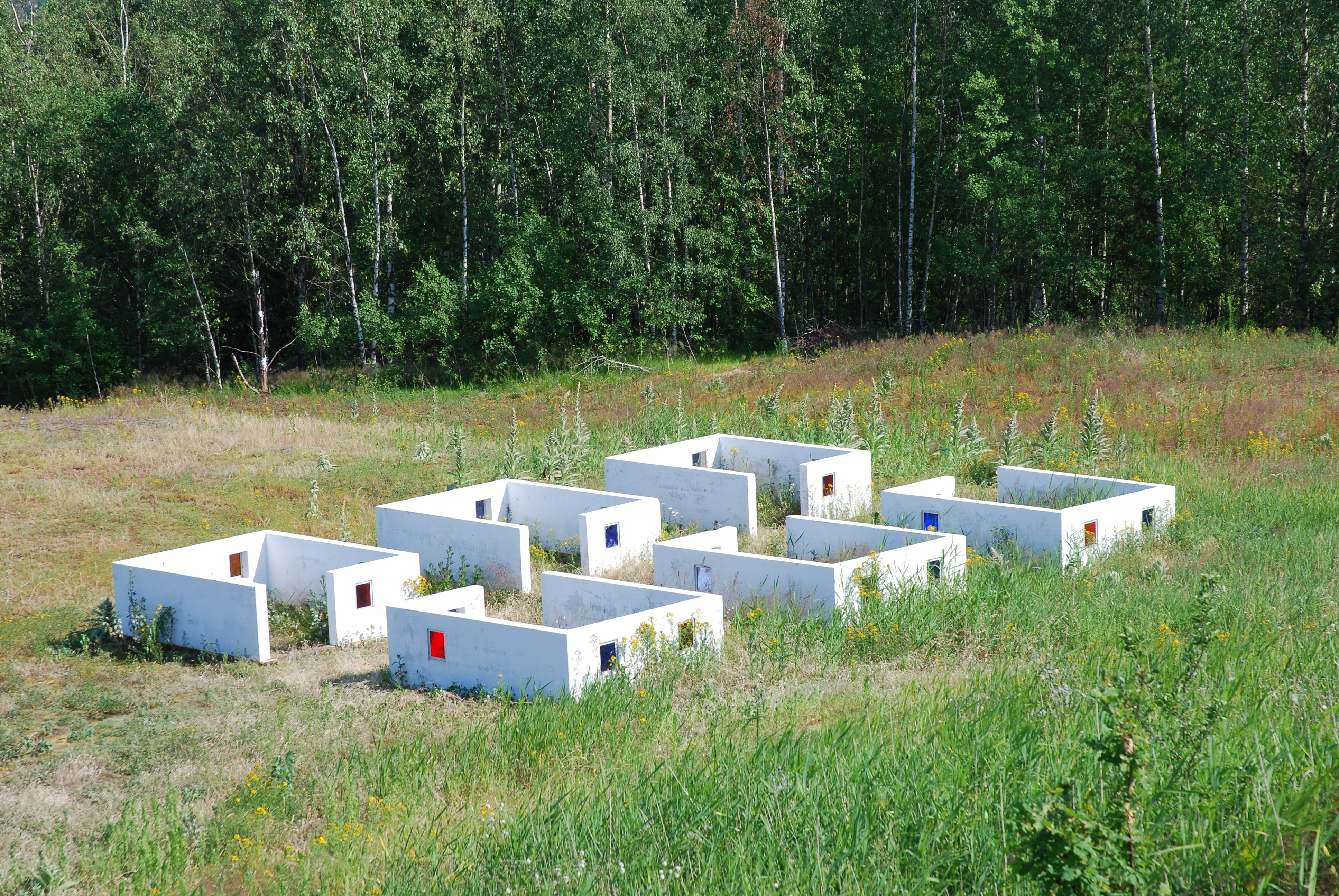 Eva Löfdahl´s Tur med vädret (Whether is good, thanks God!), 2001, in the sculpture park Konst på Hög, Kvarntorp, Sweden